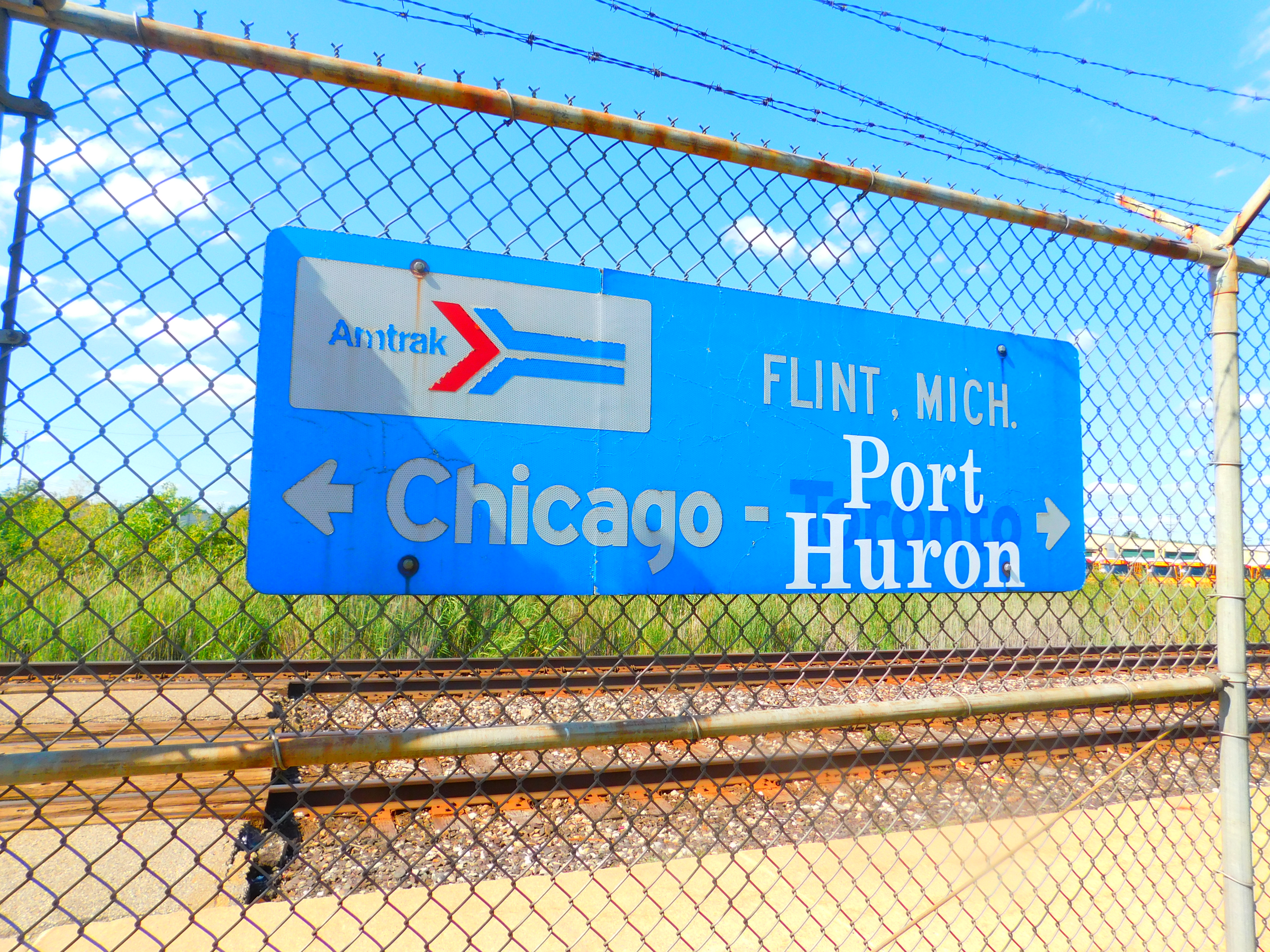 The signage at the Flint, Michigan Amtrak station denoting the current Blue Water with remnants of the International Limited.